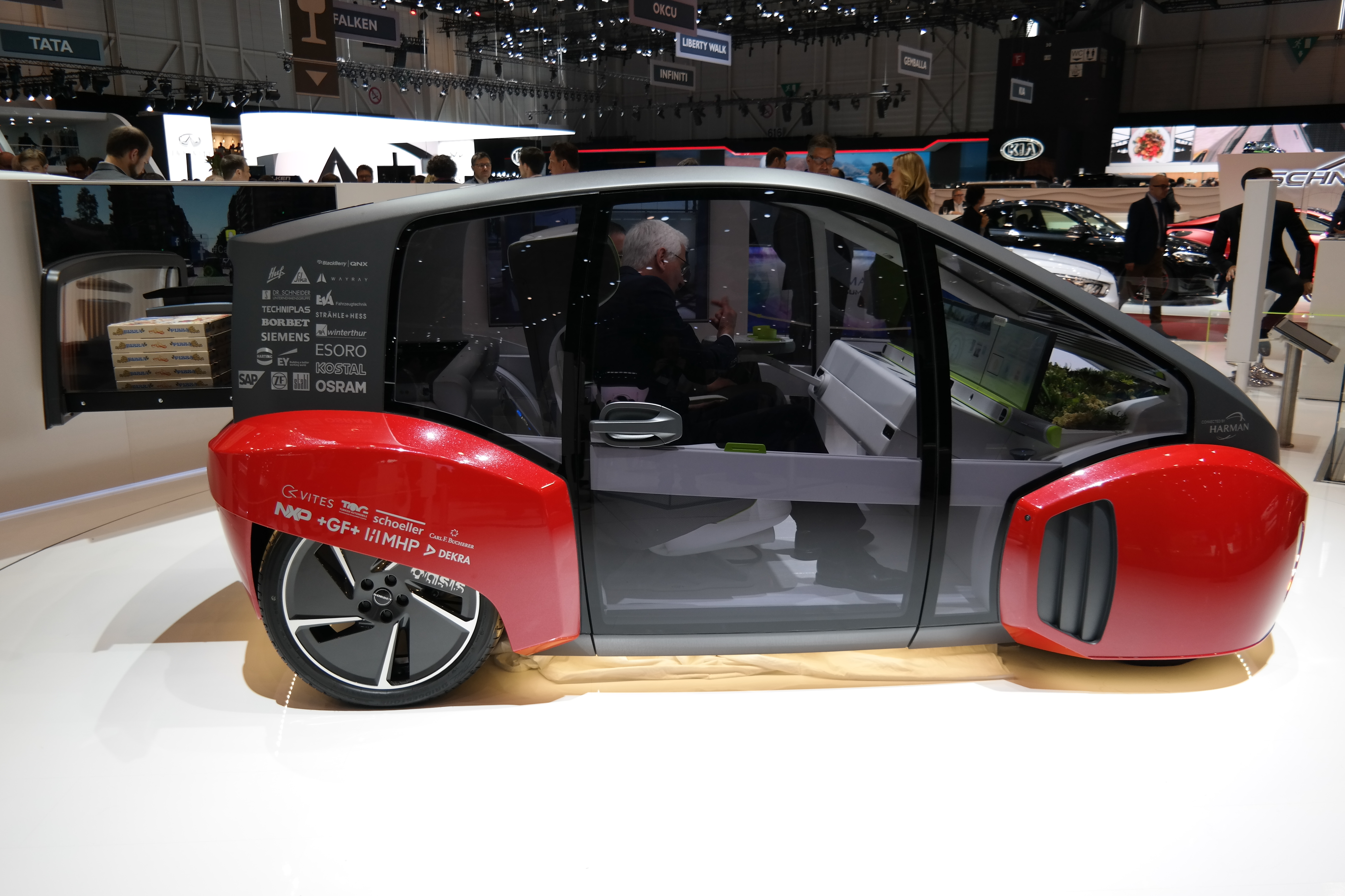 Geneva Motor Show 2017 (photo taken on the first press day)